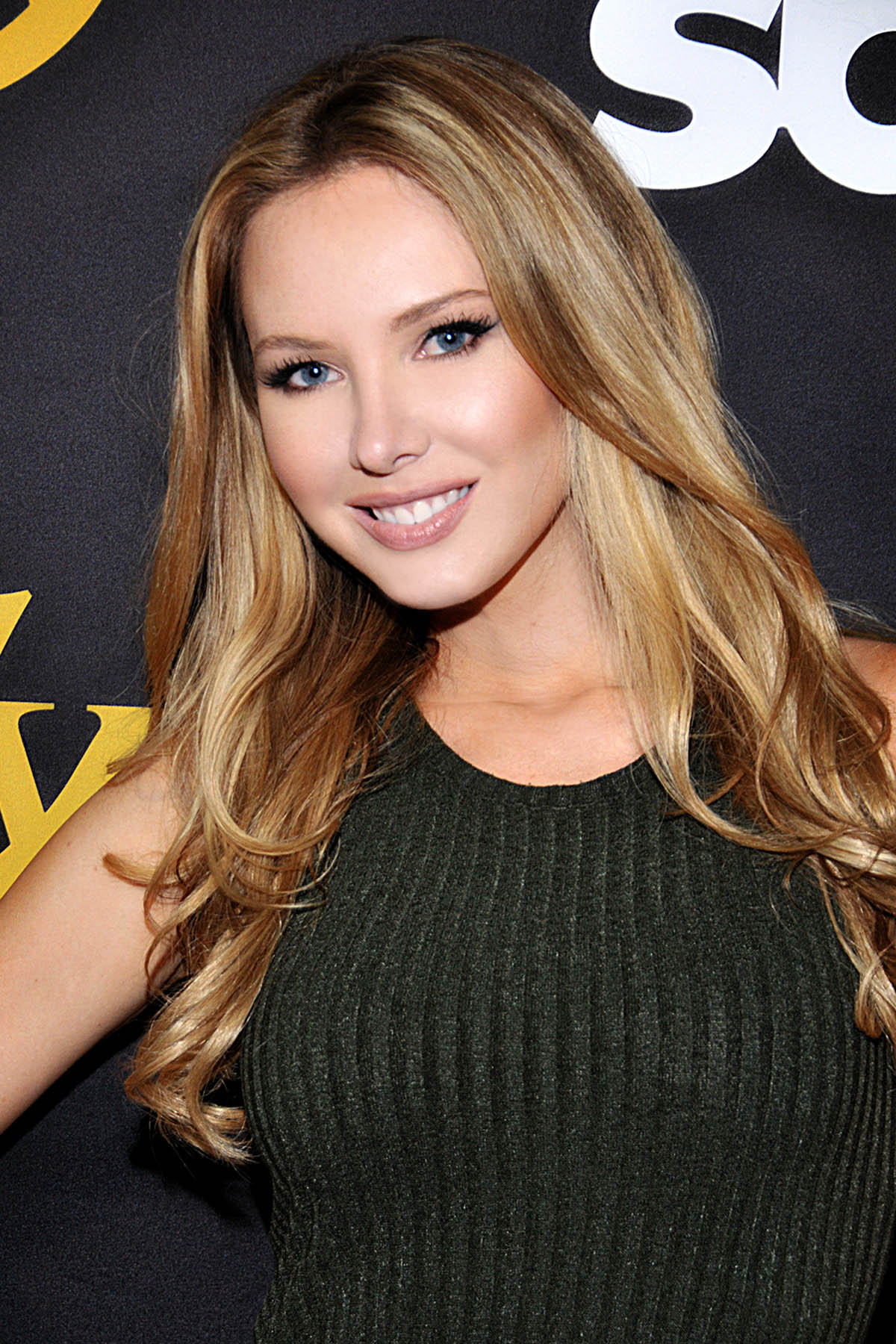 Tiffany Toth in Hollywood, California on February 18, 2016 - Photo by Glenn Francis of